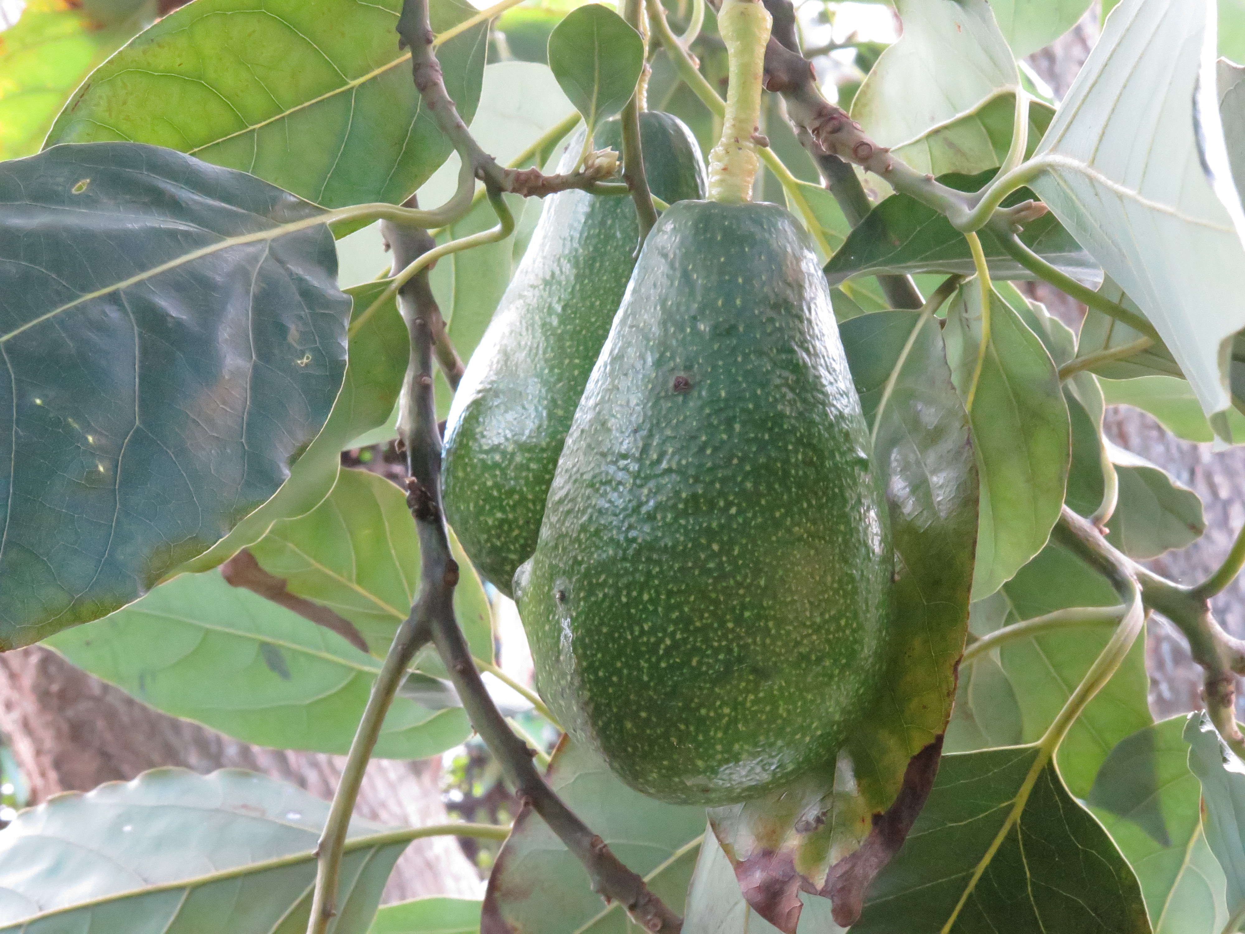 Persea americana fruits in February in Rome